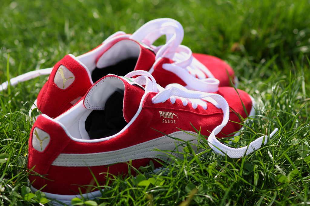 A pair of red Puma Suede shoes in grass.